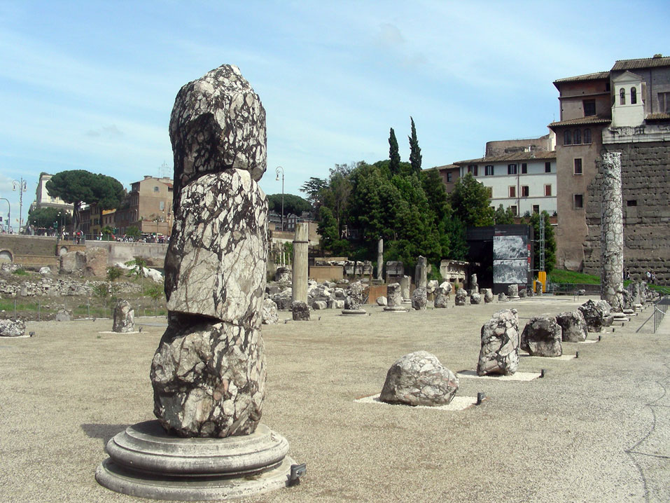 Basilica Aemilia in the Roman Forum, view of interior, from west